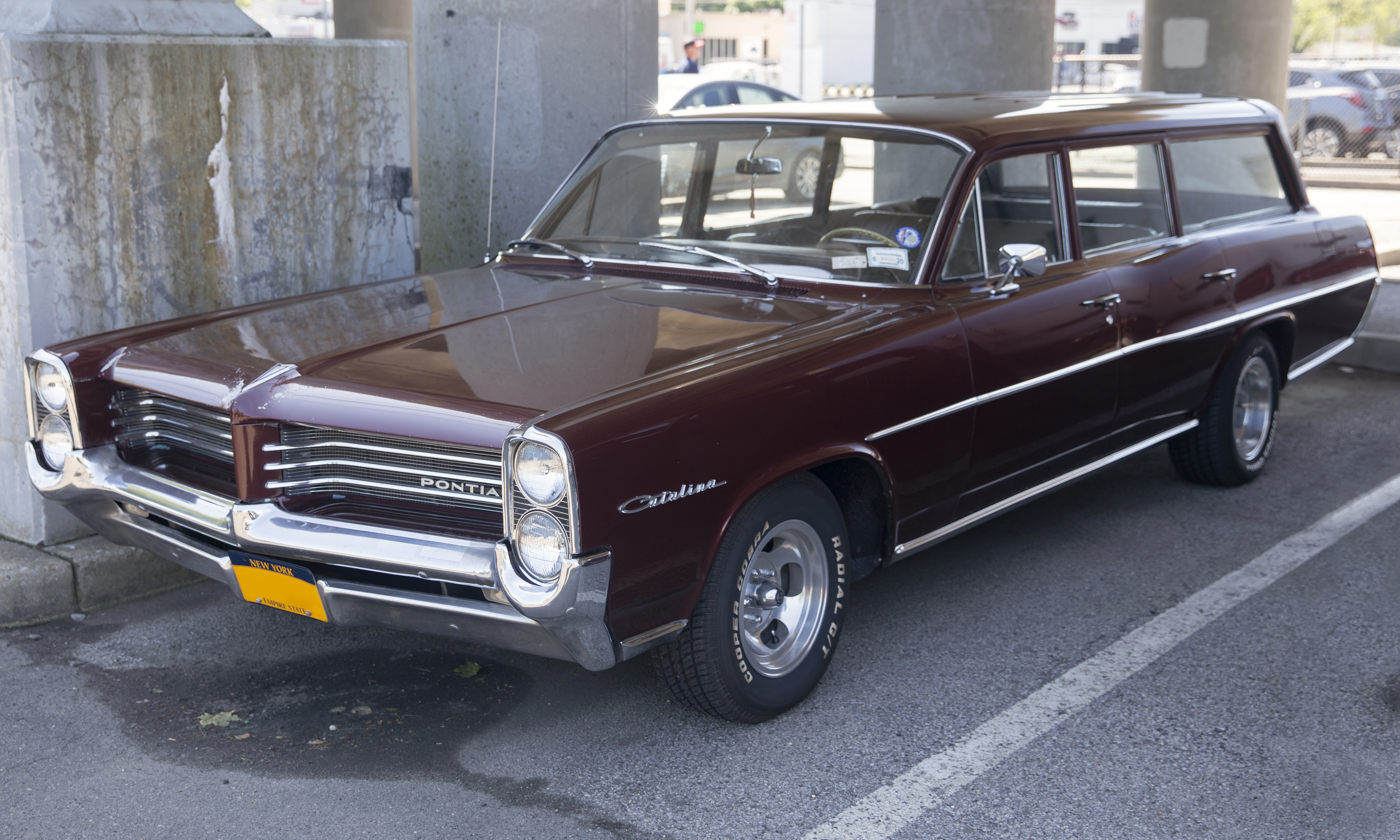 A 1964 Pontiac Catalina Safari (V8) in Wantagh, Long Island, NY.